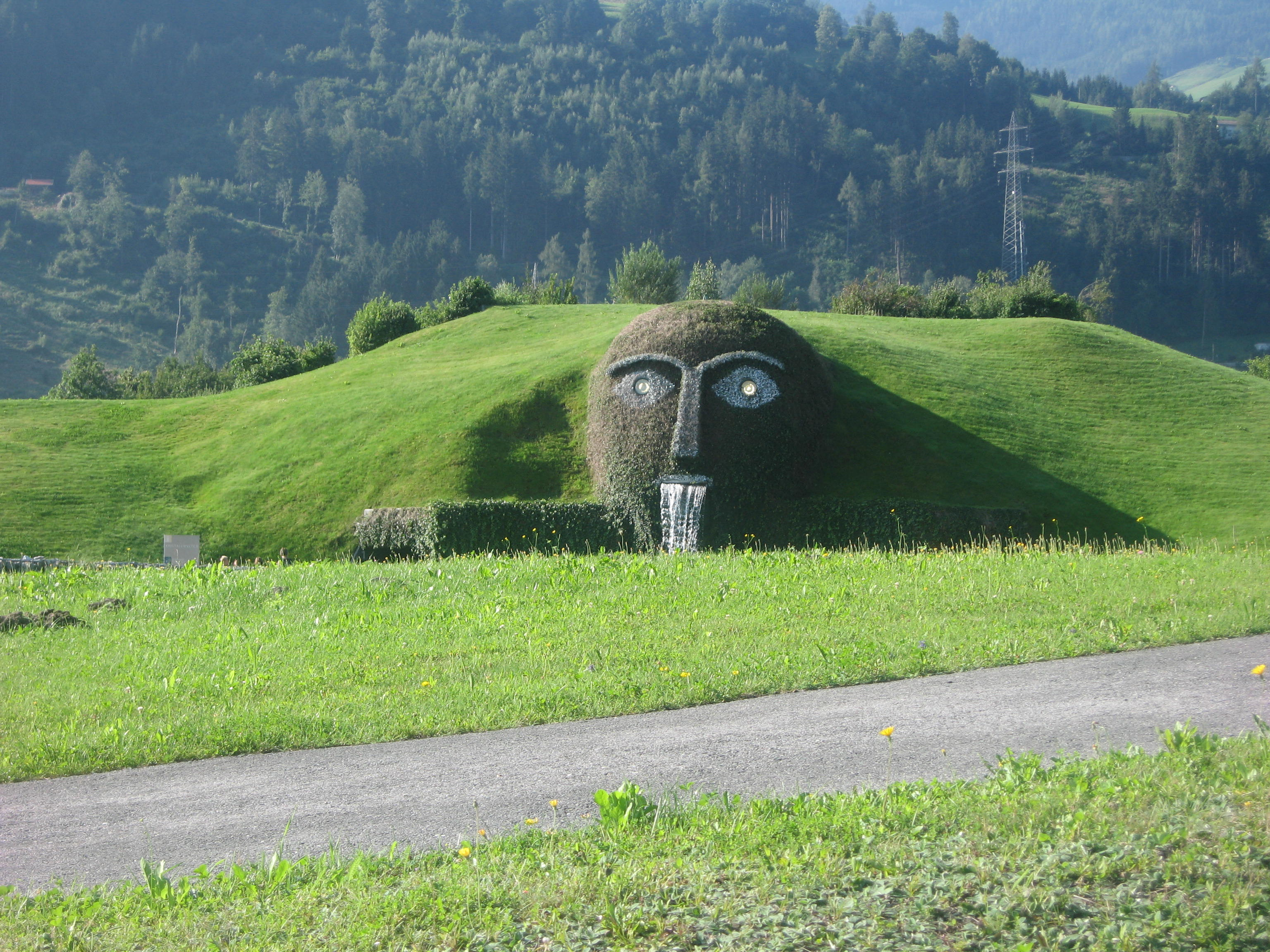 Swarovski Kristallwelten